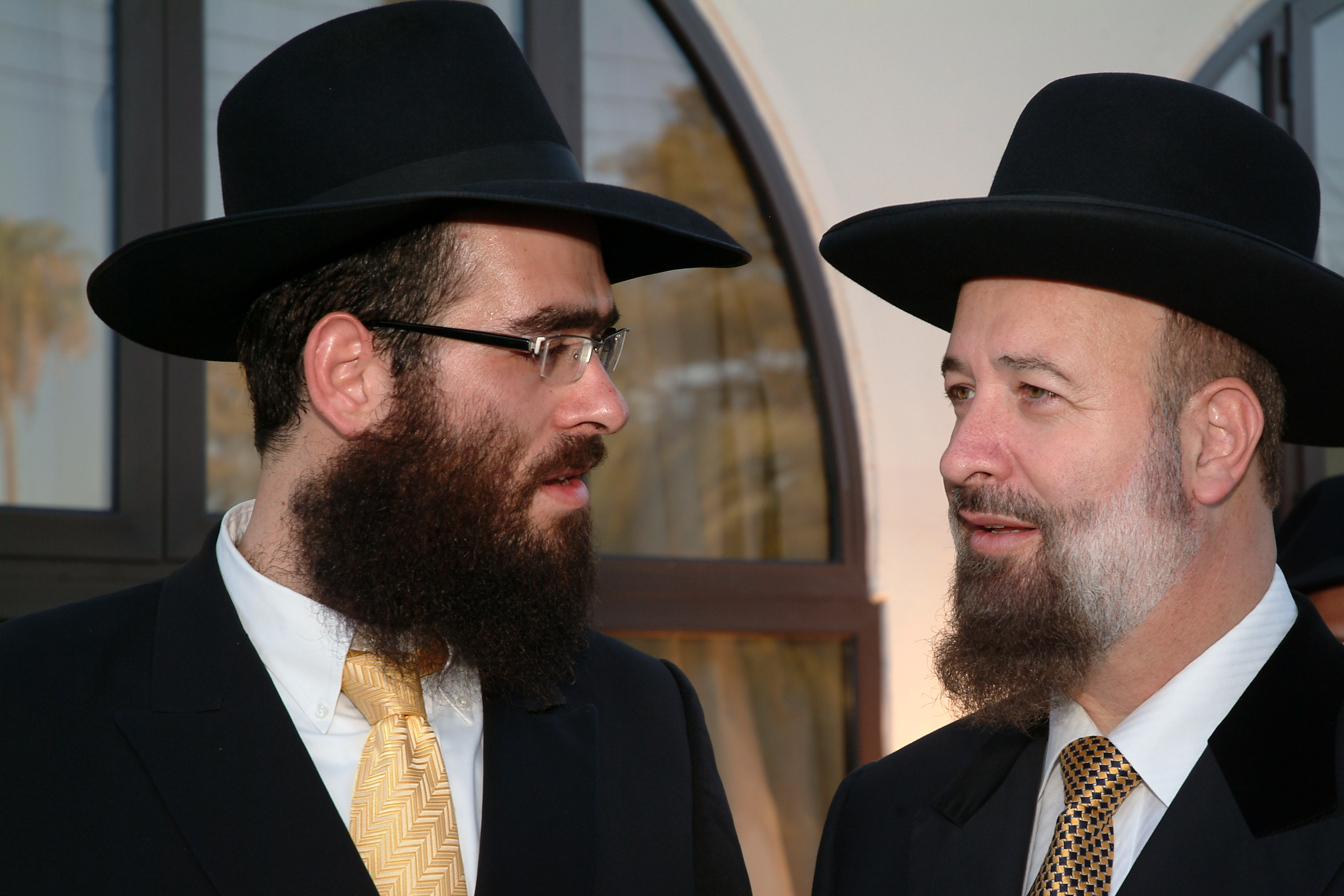 Rabbi Arie Zeev Raskin meets Rabbi Yona Metzger during Synagogue inauguration.